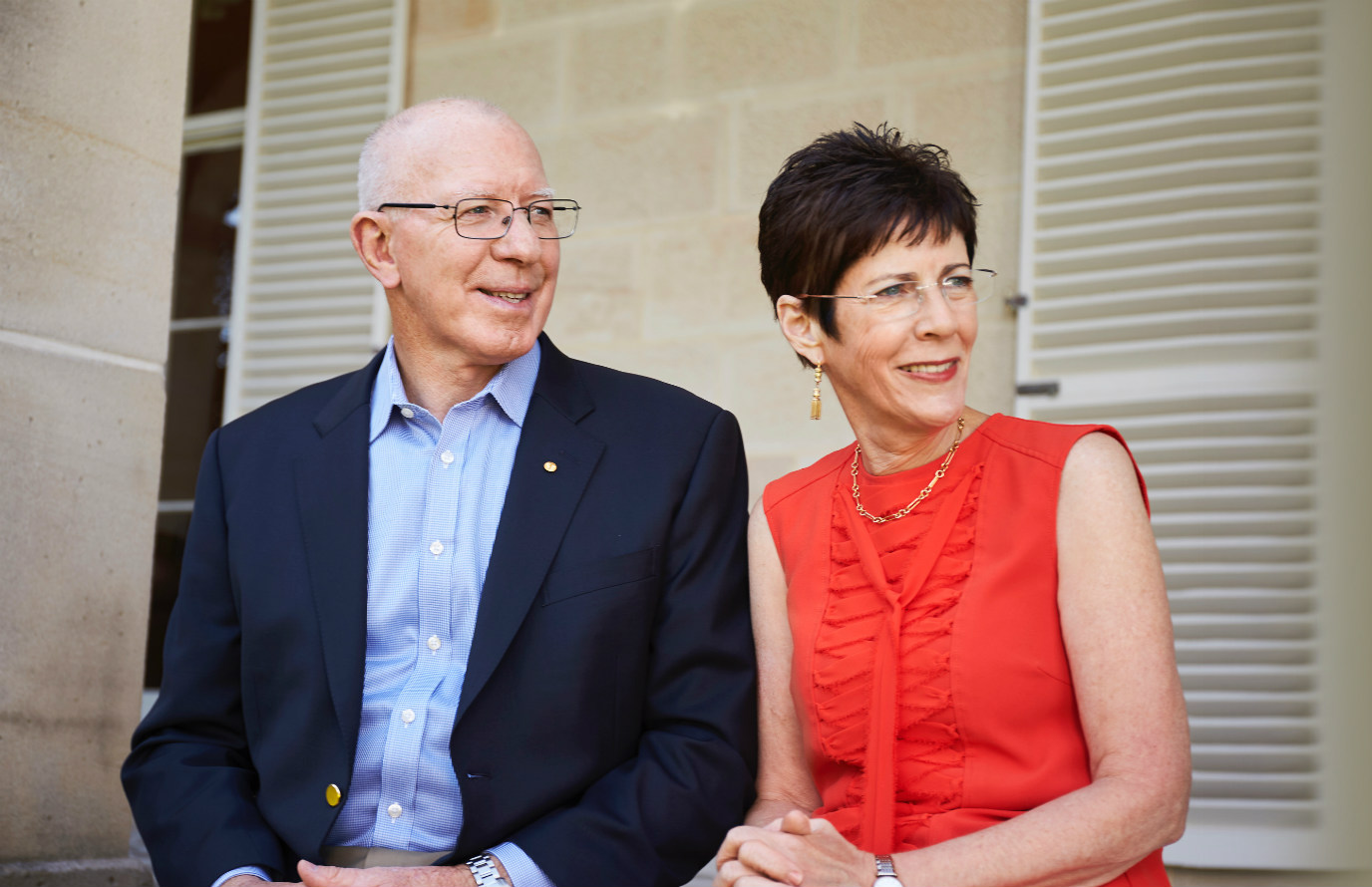 David Hurley, Governor-General of Australia, with his wife Linda Hurley